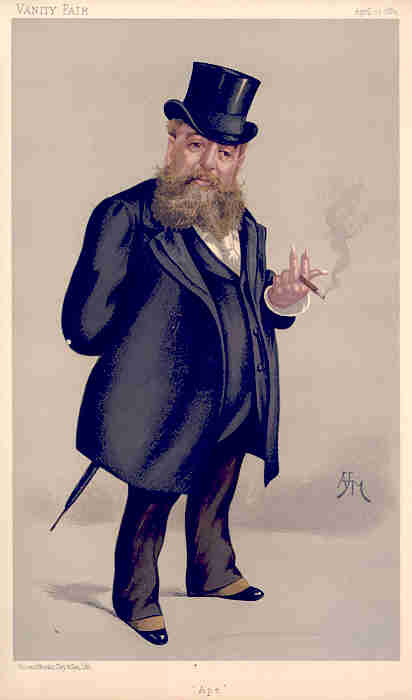 Caricature of Carlo Pellegrini (1838-1889)